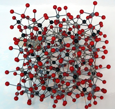 molecular model of garnet